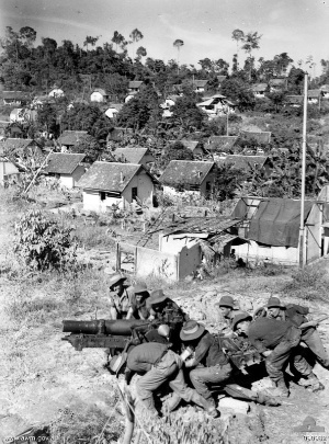 Australian War Memorial image 090982. A gun crew of D Troop, 14 Battery, 2/7th Field Regiment move a short 25 Pounder at Tarakan